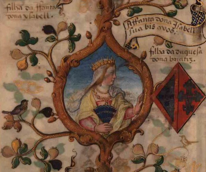 D. Isabel de Barcelos (1402-1465), daughter of Afonso, 1st Duke of Braganza, and wife of John, Infante of Portugal (son of King John I of Portugal and Queen Philippa of Lancaster).